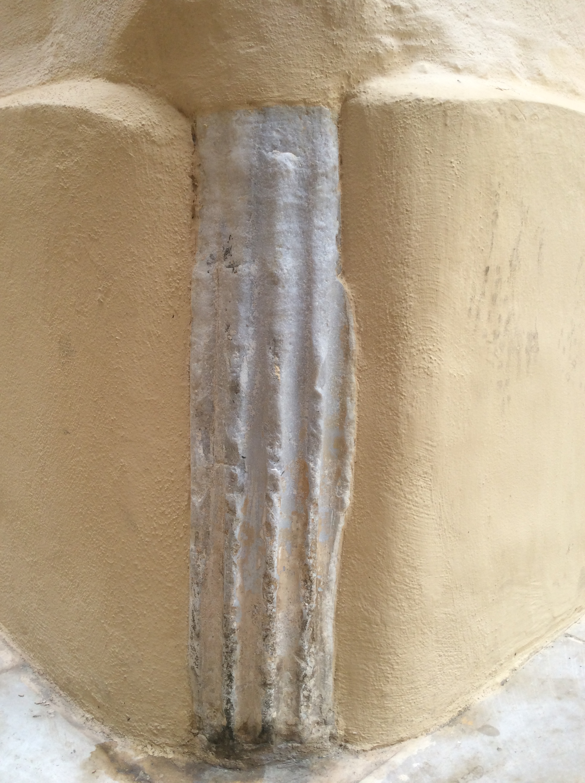 Palazzo Falzon and Garden This media is about Maltese cultural property with inventory number 01193.